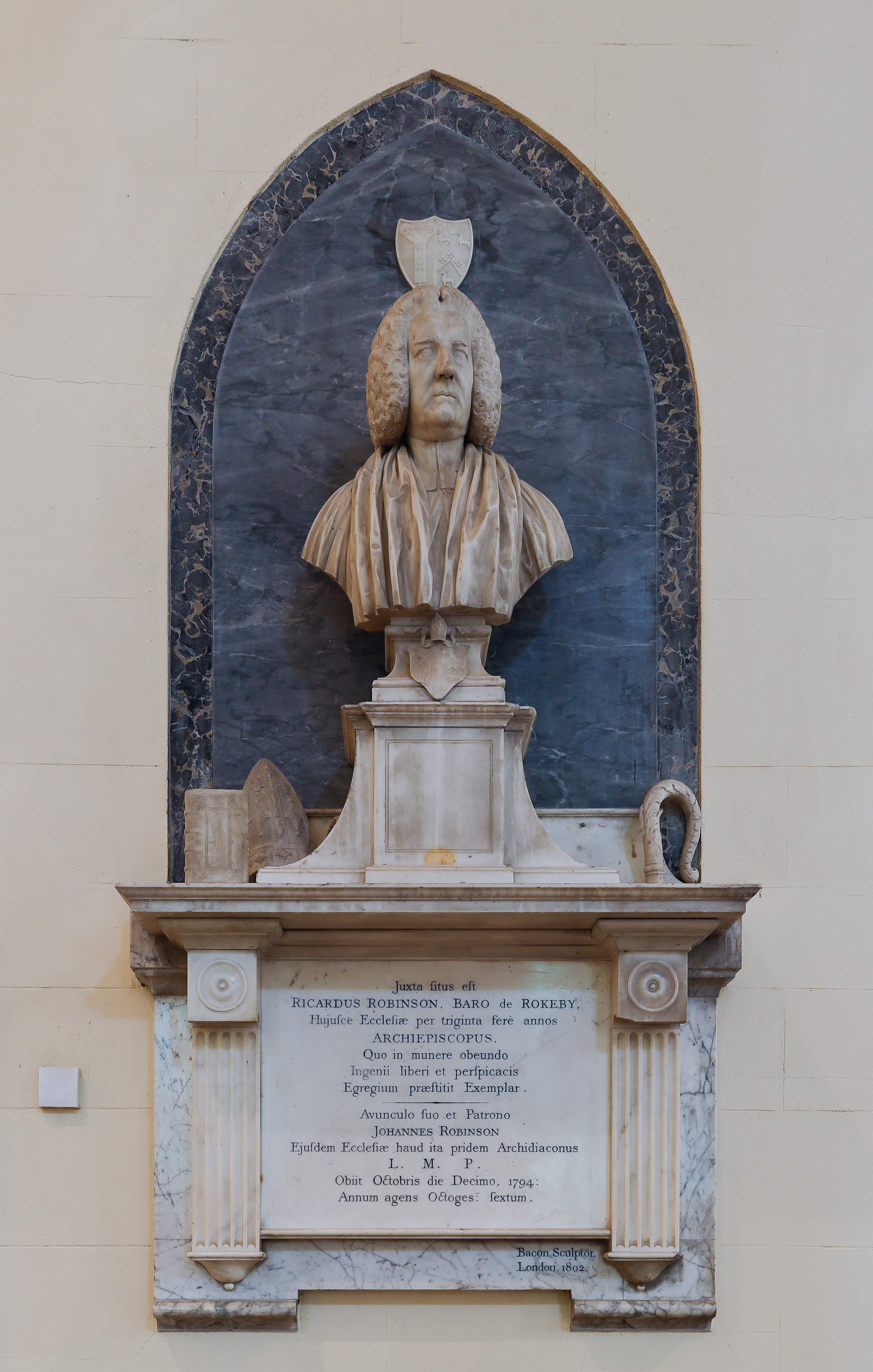 Monument in memory of Archbishop Richard Robinson (1708–1794). The bust is attributed to Joseph Nollekens, the overall setting is due to John Bacon the Younger who left a signature “Bacon, Sculptor, London, 1802” at the lower border. (See Kevin V. Mulligan, The Buildings of Ireland: South Ulster, p. 105.) Wikidata has entry Q2942532 with data related to this item.